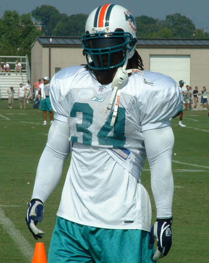 If used somewhere other than Wikipedia, Nelson, by name.